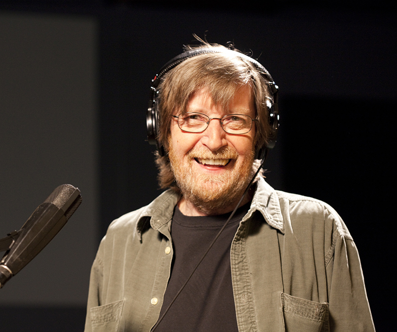 DJ and musicologist Larry Monroe, an expert on the work of music legend Blaze Foley, narrated the documentary film about him, Duct Tape Messiah, produced by Kevin Triplett.